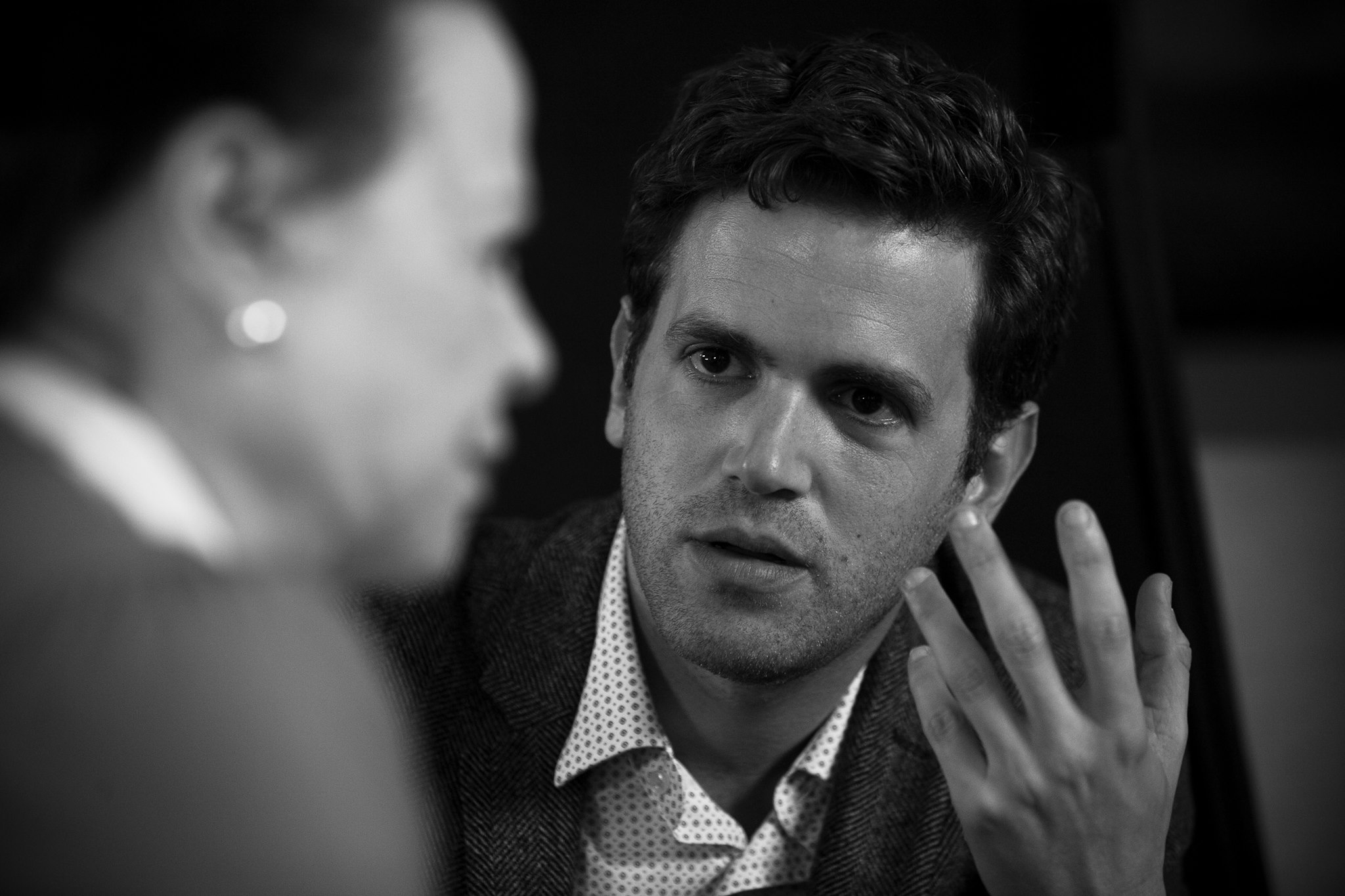 הבמאי, והשחקן אמיר וולף